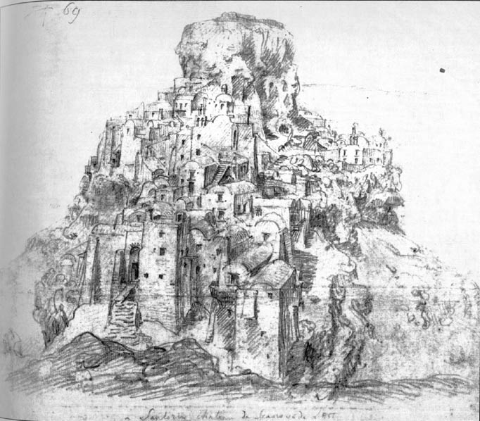 A sketch of Skaros Rock, a settlement in Santorini, Greece. Done in pencil by English author Thomas Hope during his trip to Ottoman-controlled Greece in the 1790s